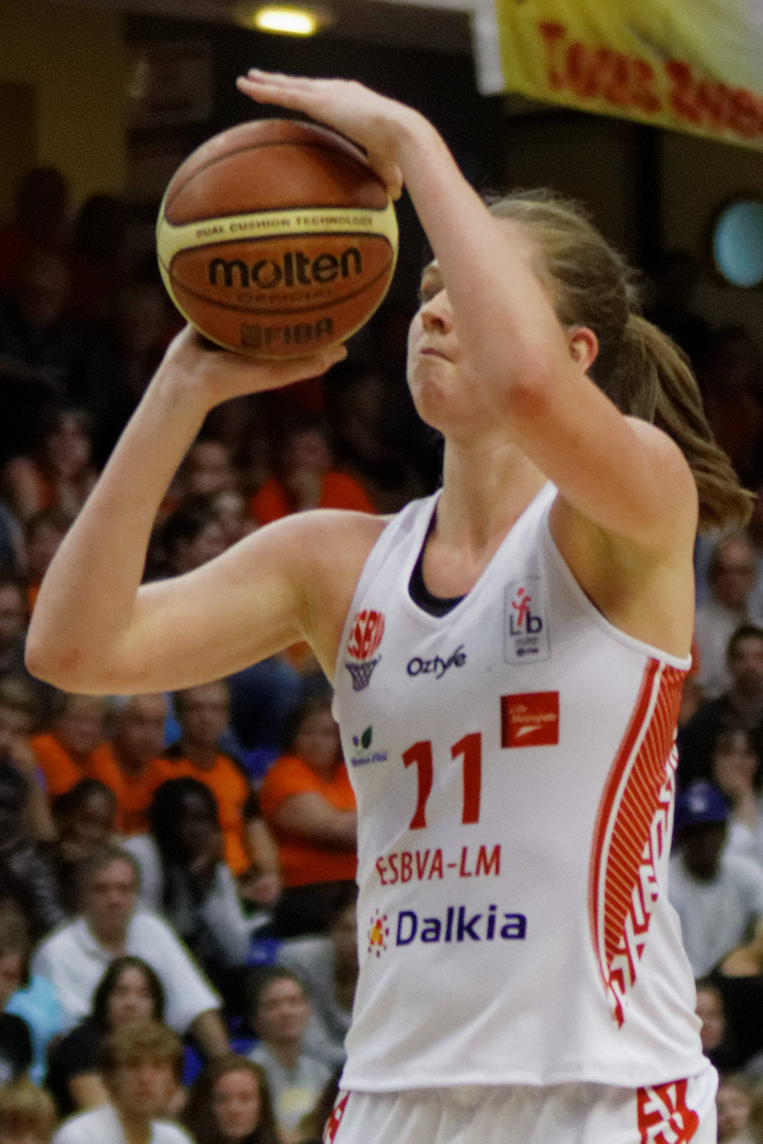 Open LFB, Villeneuve d'Ascq-Basket Landes, October 5th, 2013.